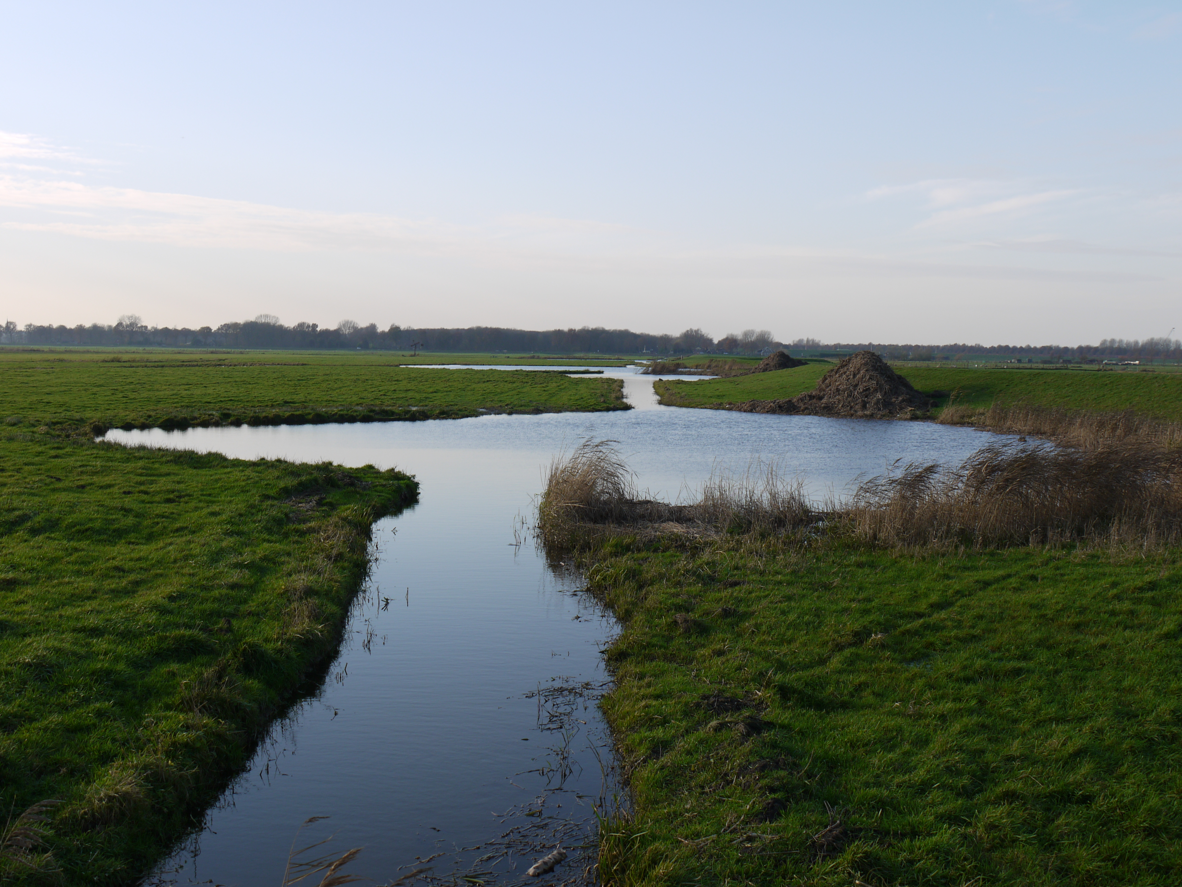 Pools in Eemland, a part of the province of Utrecht, the Netherlands.